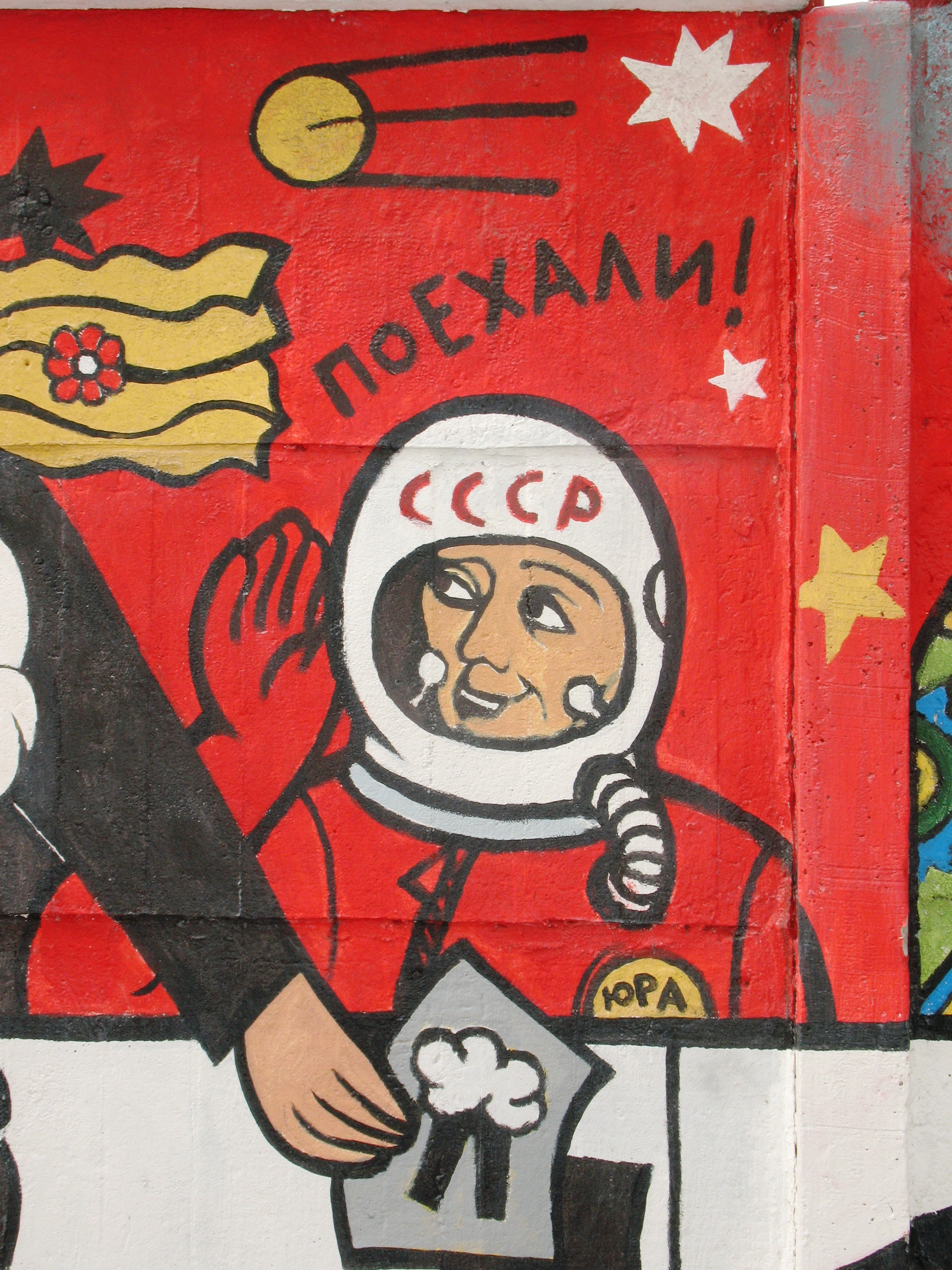 Yuri Gagarin on graffiti. Kharkov, 2008.